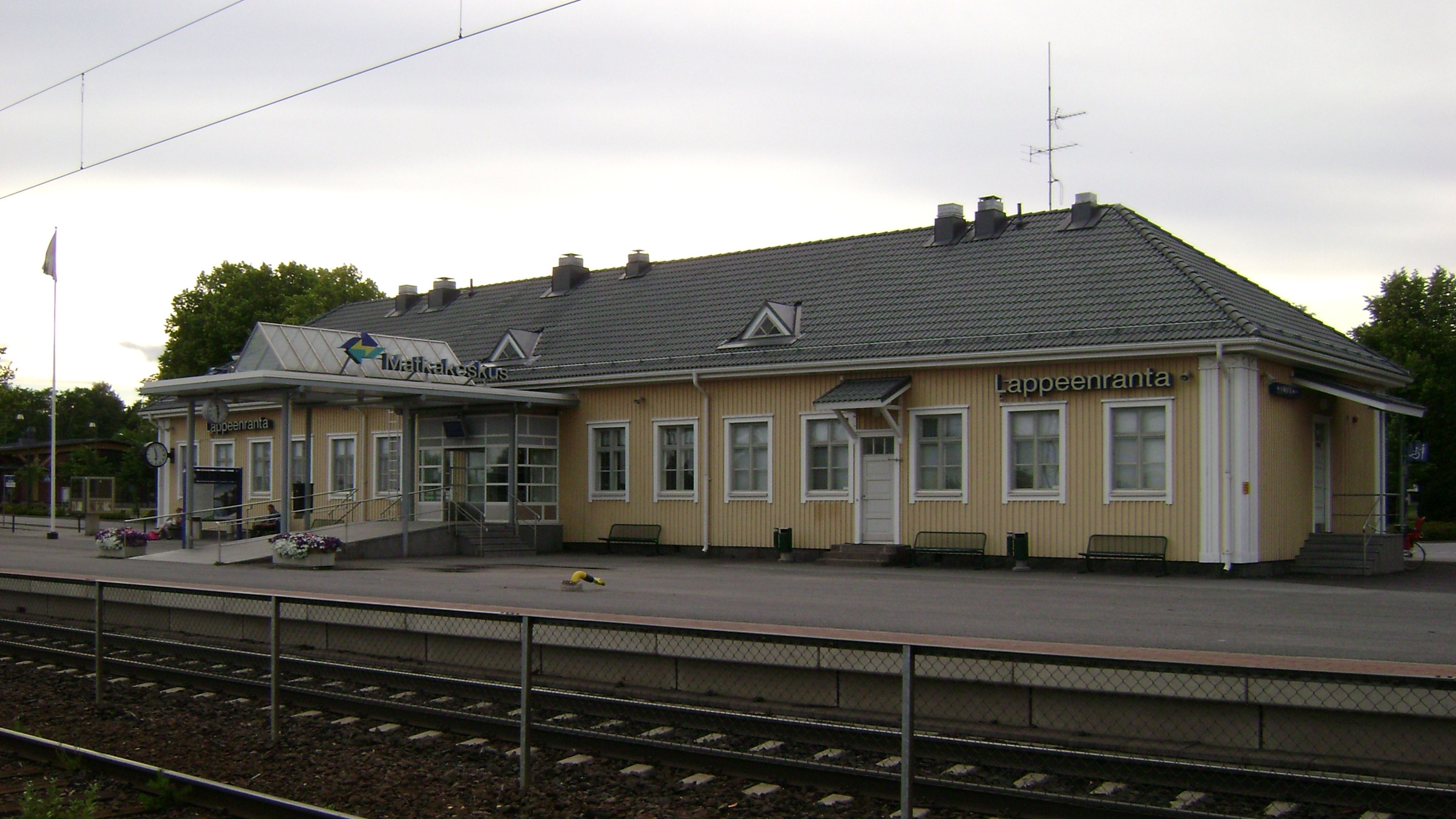 Lappeenranta railway station